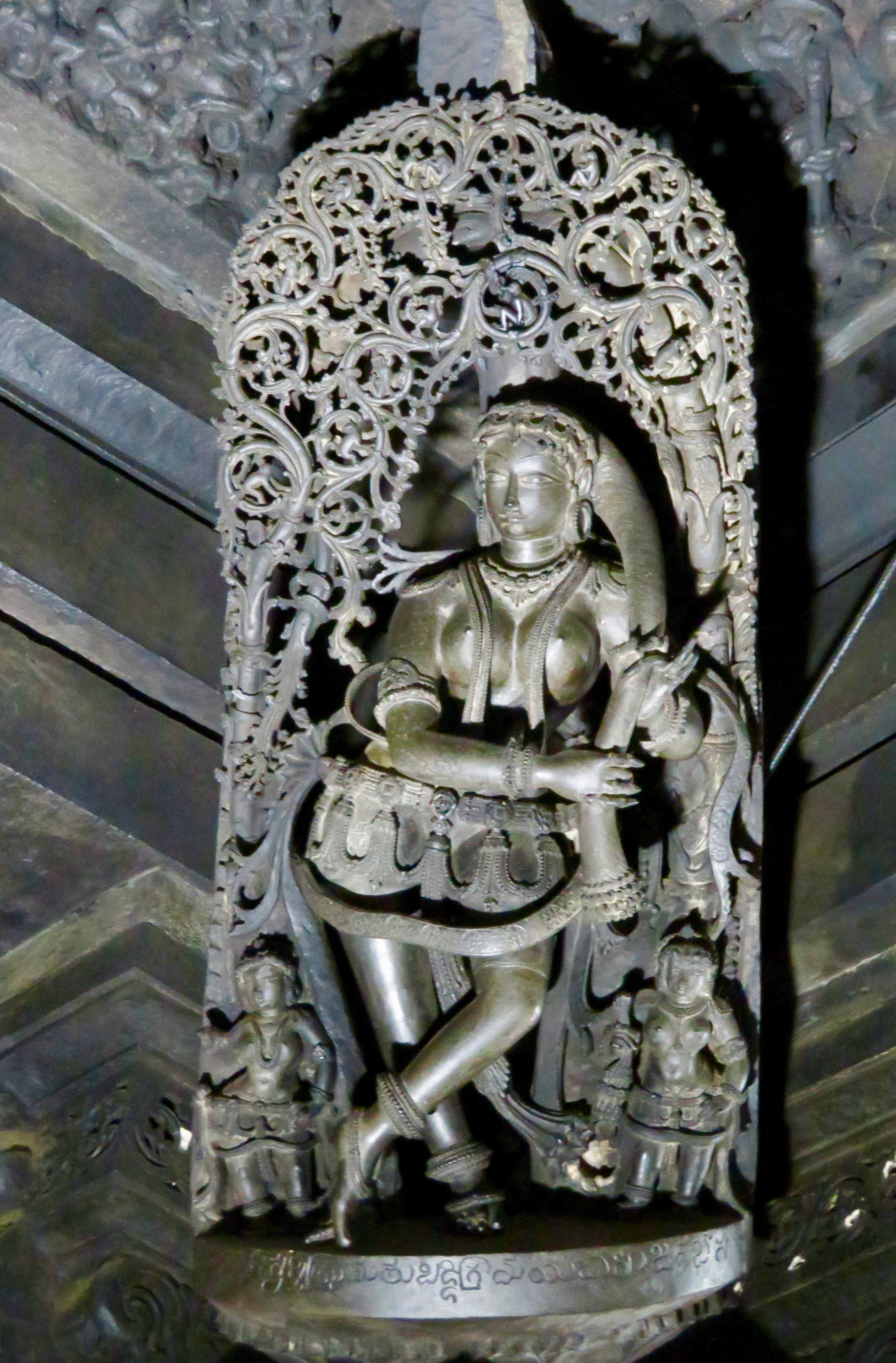 The Chennakeshava Temple is an early 12th-century Vaishnavism Hindu temple in the Hassan district of Karnataka state, India. Featuring intricate Hoysala artwork and squares-circles vastu design per Hindu texts, the temple was built on the banks of a river in Belur by King Vishnuvardhana. The temple is active, drawing numerous Hindu devotees every day. It is also a major tourist attraction with being one of the finest examples of sophisticated reliefs and stone carving that show in exquisite detail various forms of Vishnu and Lakshmi, along with reverential iconography of major Hindu gods and goddesses such as Shiva, Parvati, Durga, Saraswati, Ganesha, Kartikeya, Rama, Krishna, Hanuman and others. The temple features a water tank as well as a large courtyard for performance art festivals.